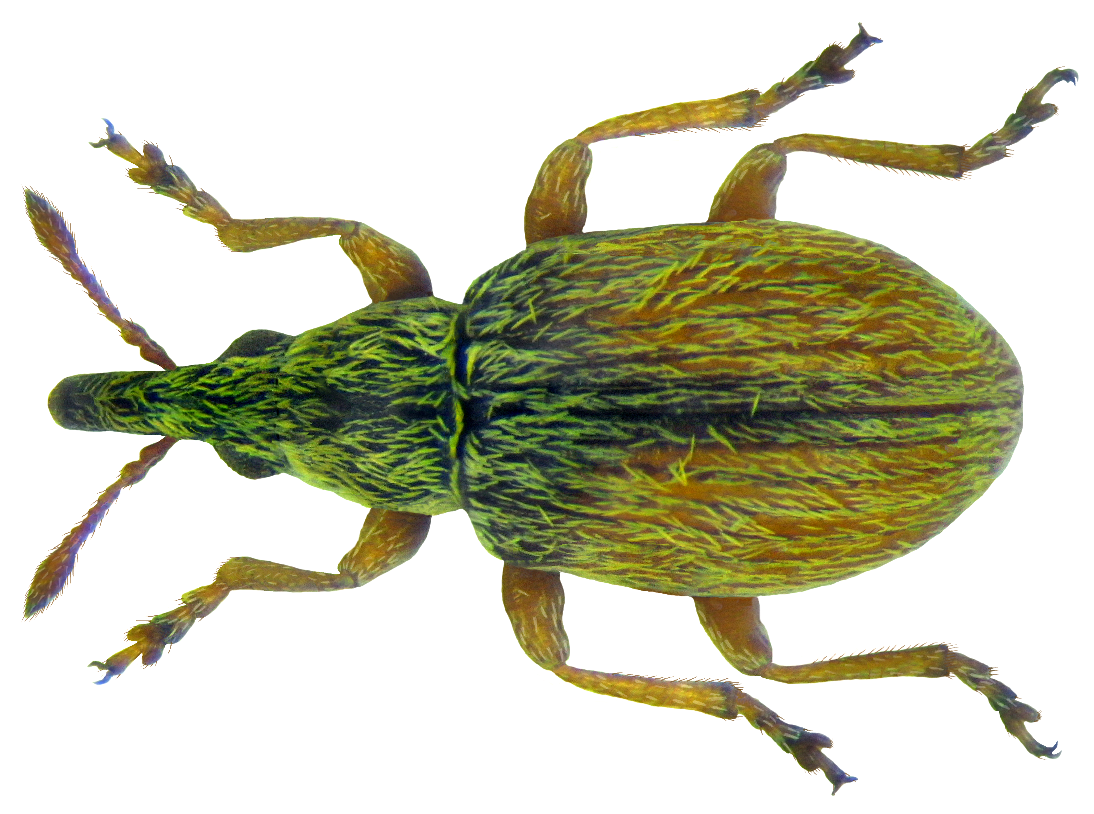 Family: Apionidae Size: 1,8-2,4 mm Origin: palaearctic Ecology: on Malvaceae Location: Germany, Bavaria, Upper Franconia, Selbitz, Uschertsgrün, Thronbachtal leg.det. U.Schmidt. 25.VI.2004 Photo: U.Schmidt, 2012